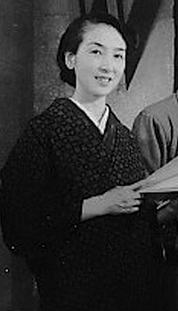 Actress Hiroko Kawasaki (1912–72). From a studio still for the 1951 Shin-Tōhō motion picture Wakare Gumo.